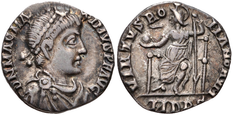 Magnus Maximus. AD 387-388. AR Siliqua (14mm, 1.04 g, 5h). Mediolanum (Milan) mint. Struck AD 387-388. D.N. MAG MAXIMVS P F AVG Pearl-diademed, draped, and cuirassed bust right VIRTVS ROMANORVM Roma enthroned facing, head left, holding globus and sceptre; in exergue MDPS. RIC IX 19a; RSC 20†c. Good VF, toned.